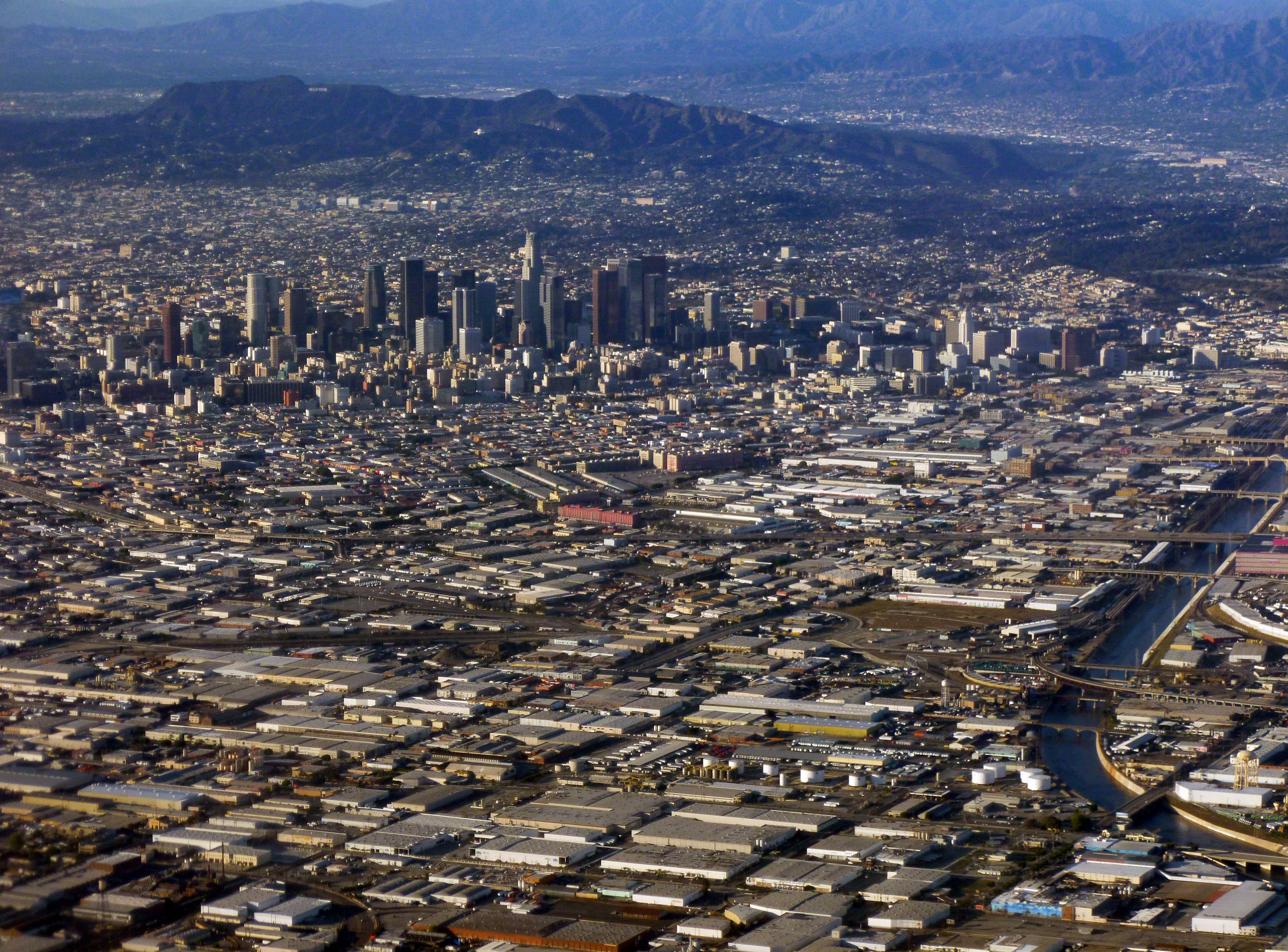 Aerial view of Los Angeles, CA from a passenger jet flying into LAX